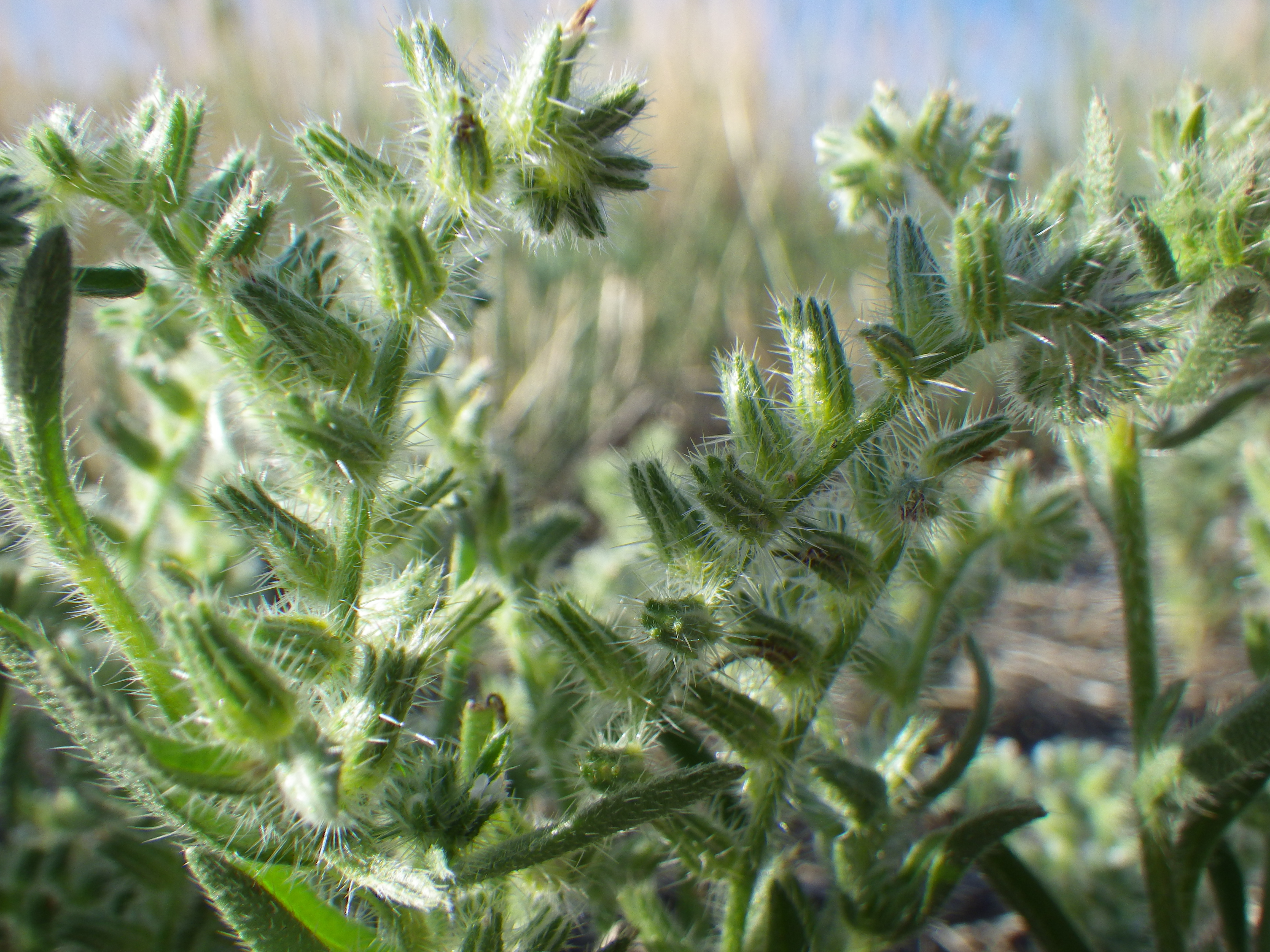 The helicoid cyme unfolds and straightens and fruits begin to mature.